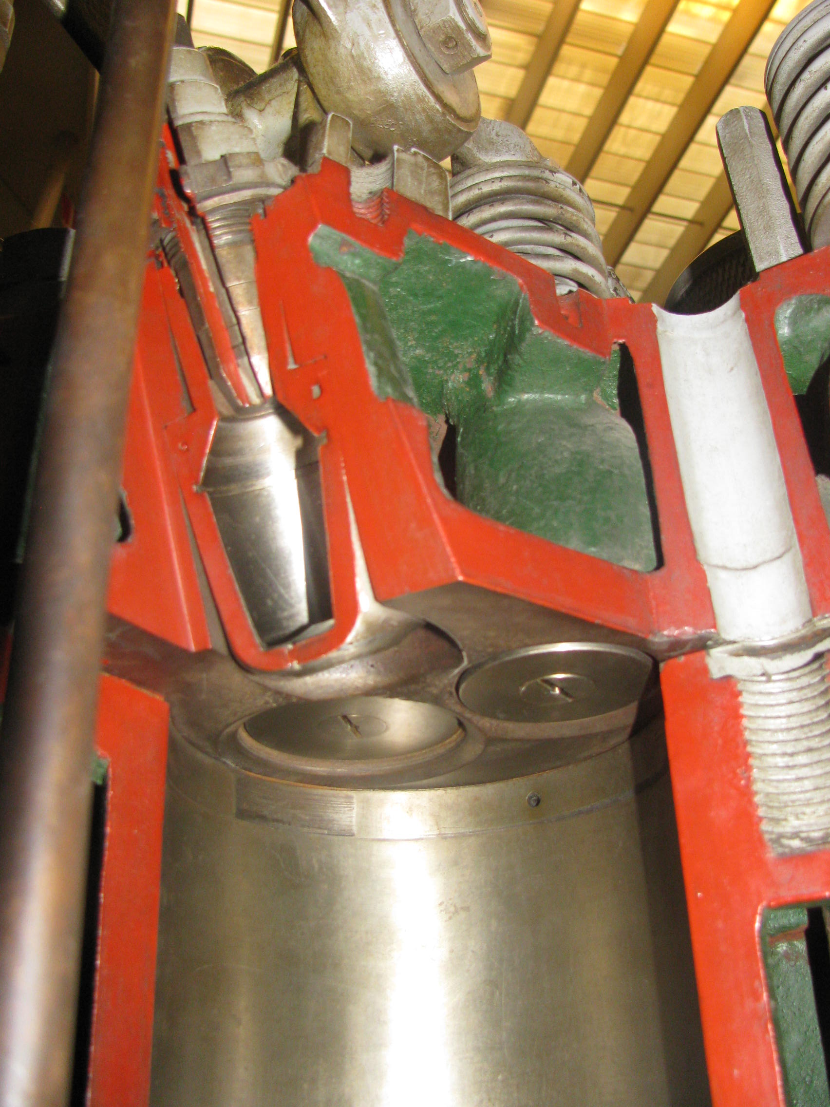 Combustion chamber of a Ganz-Jendrassik diesel engine.